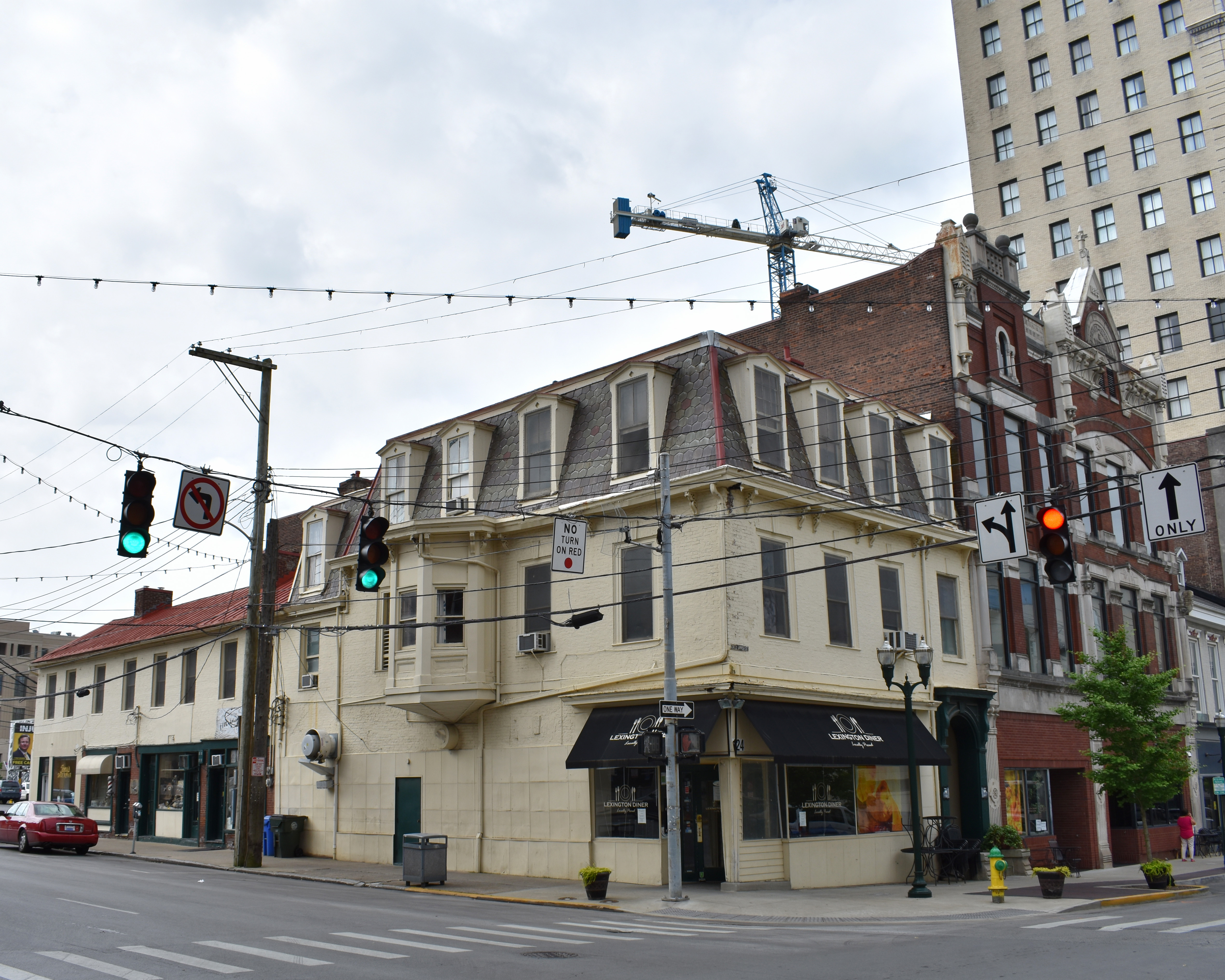 The Walter Warfield Building (1806) in Lexington, Kentucky, is listed on the National Register of Historic Places.